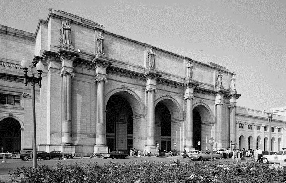 Union Station, 50 Massachusetts Avenue Northeast, Washington, District of Columbia, DC